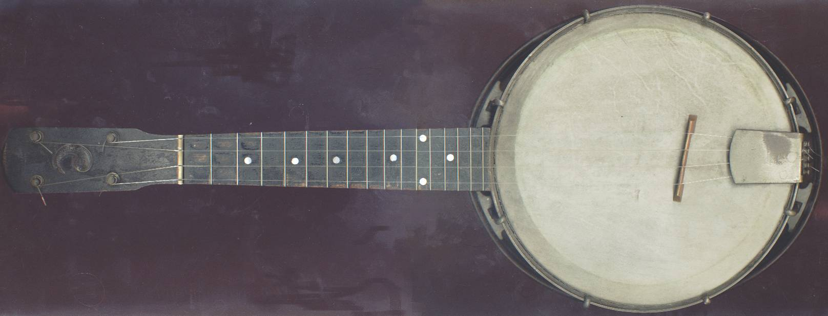 it's a banjo ukulele, not to be confused with a ukulele banjo or banjolele which are completely different